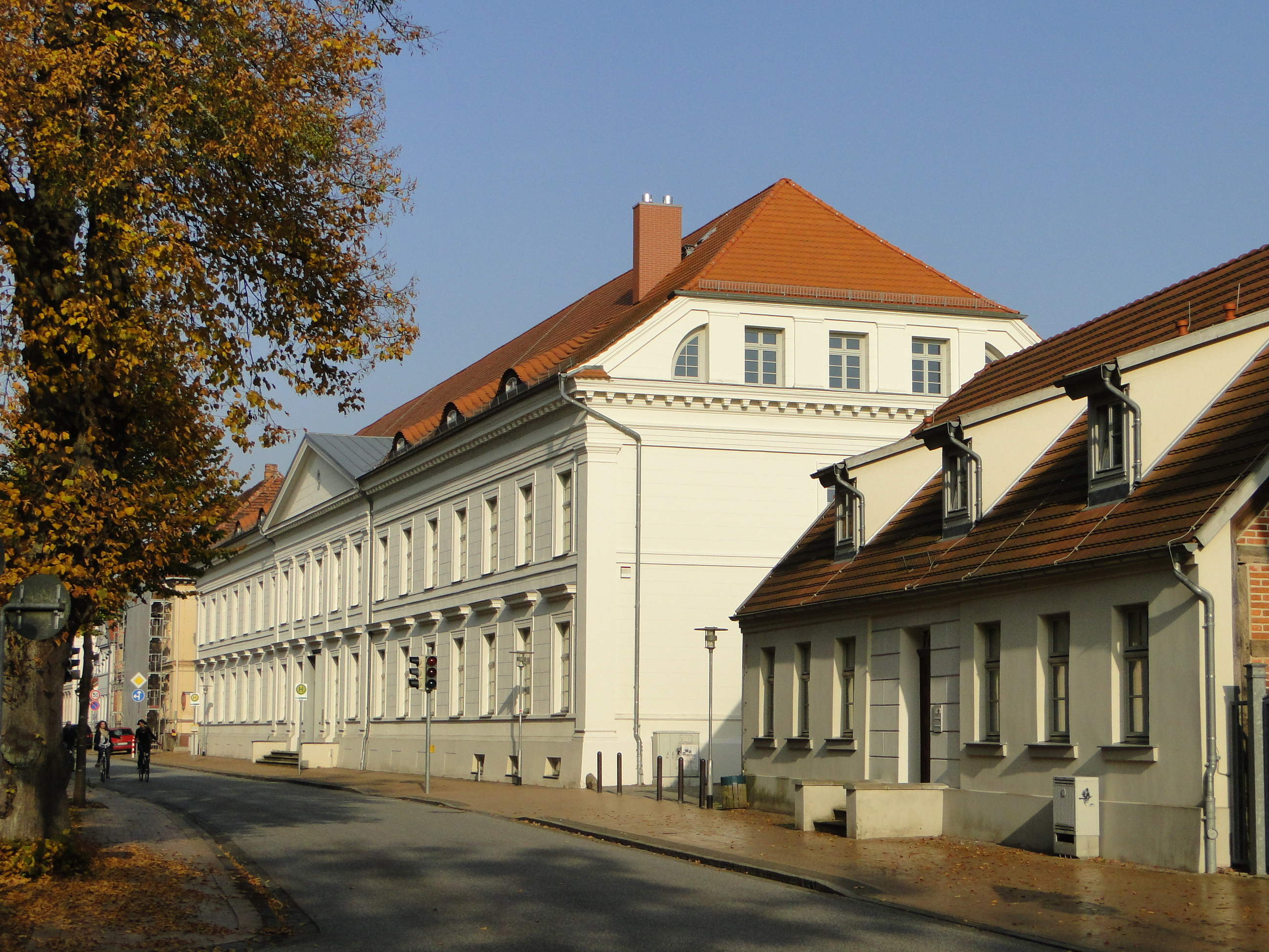 School building (Kanalstraße 26) and house (Kanalstraße 24) in Ludwigslust, district Ludwigslust-Parchim, Mecklenburg-Vorpommern, Germany